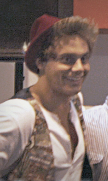 British actors James Atherton and Craig Vye at the Clothes Show Live at NEC Arena, Birmingham, UK